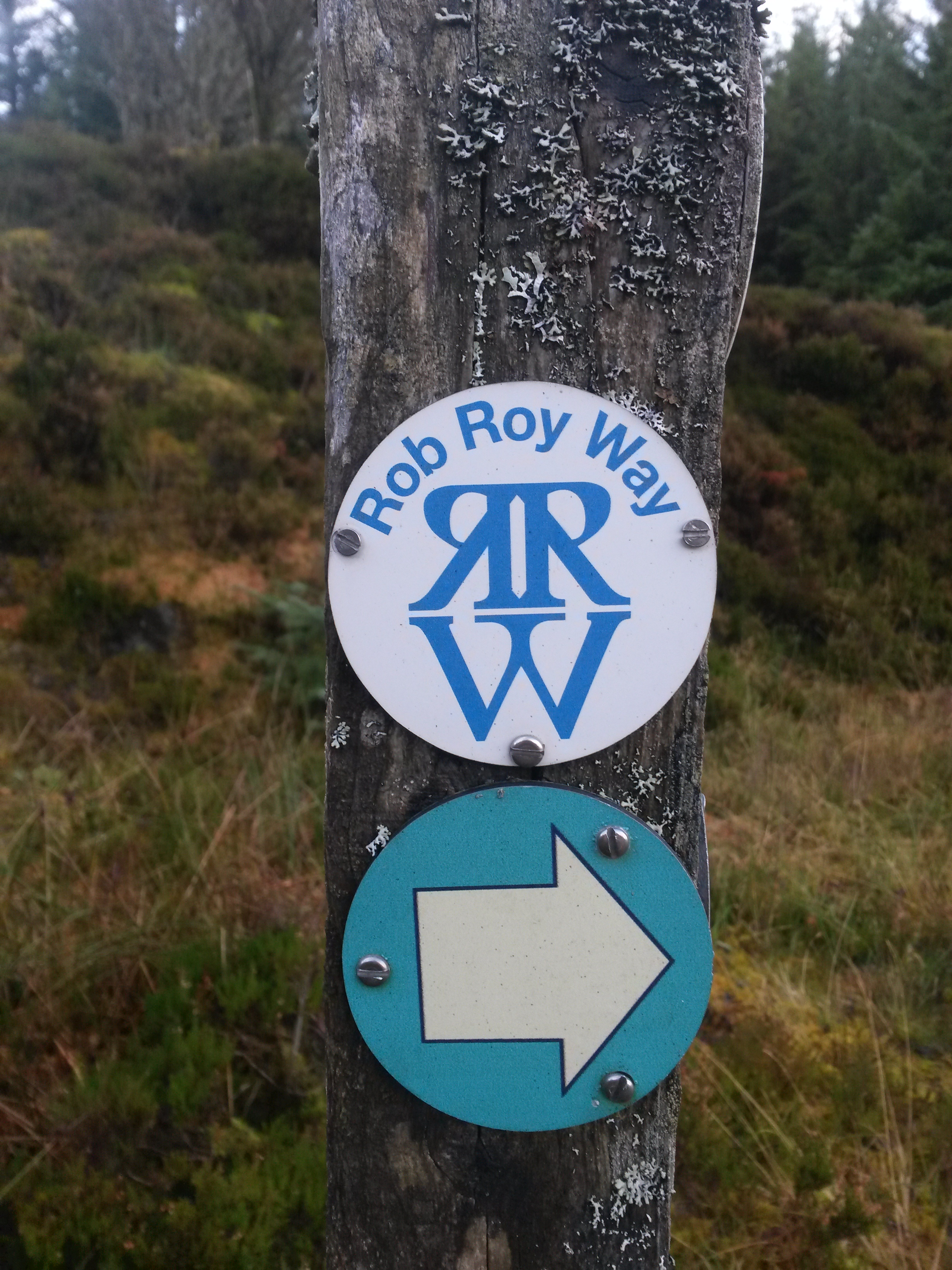 Signage on the Rob Roy Way south of Loch Tay, Grid Ref NN587301.